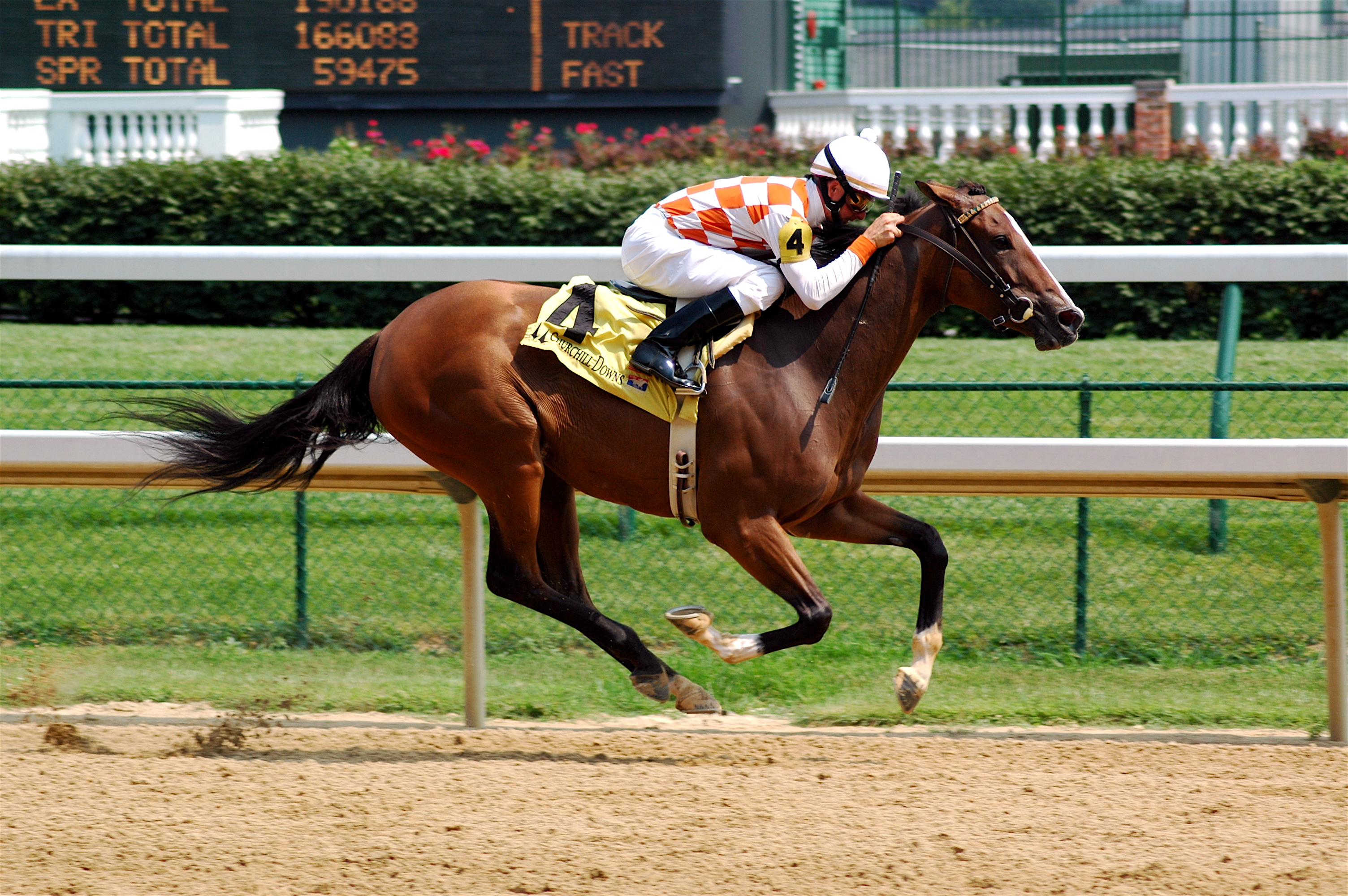 Thoroughbred racing at Churchill Downs.